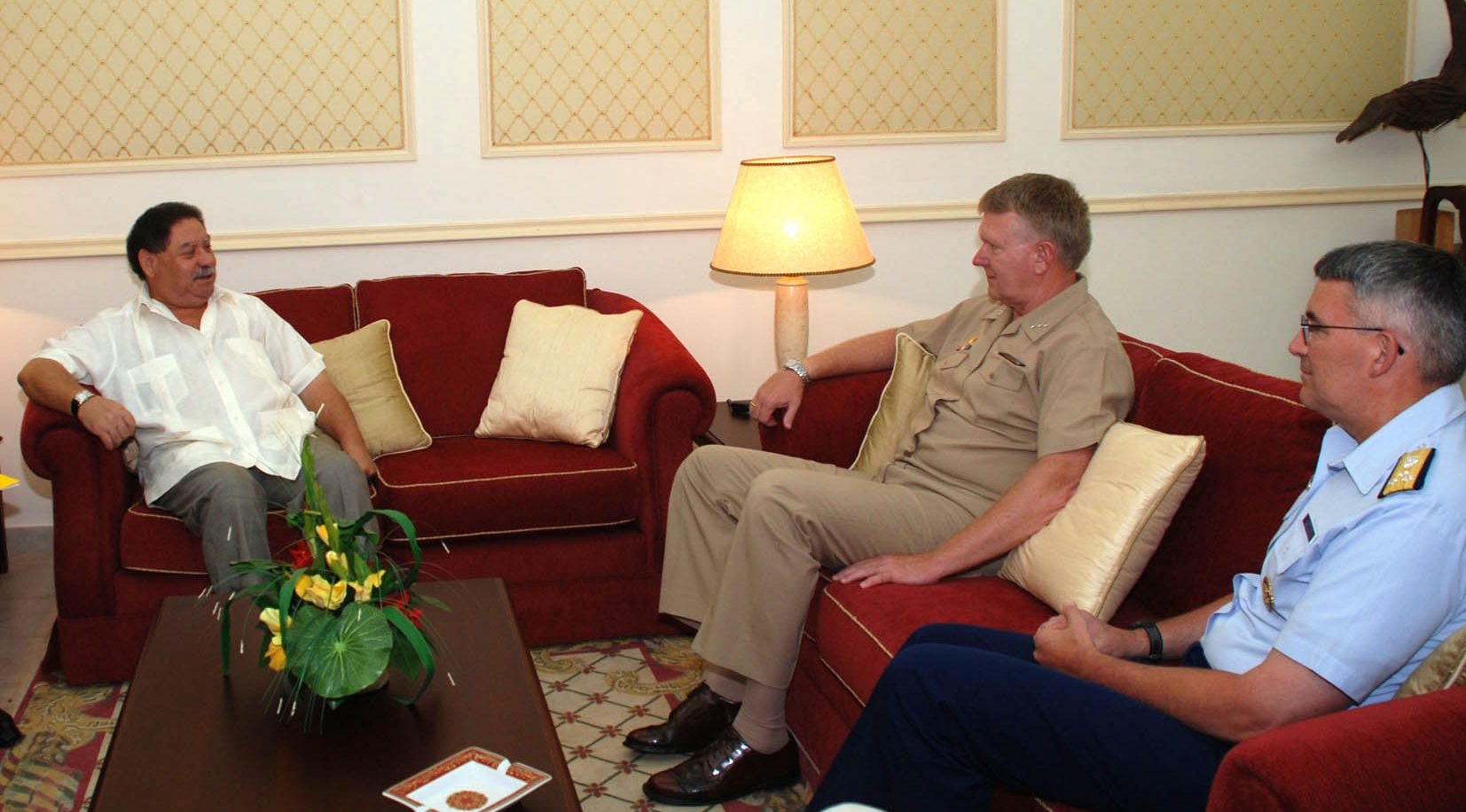 SAO TOME AND PRINCIPE (May 23, 2007) - Vice Adm. John Stufflebeem (center right), commander, U.S. Sixth Fleet and Vice Adm. D. Brian Peterman (right), commander, U.S. Coast Guard Atlantic Area meet with Sao Tome President Fradique de Menezes at the presidential residence. Stufflebeem and Peterman are leading a joint Navy and Coast Guard team that will travel throughout West Africa and the Gulf of Guinea to discuss maritime security and safety with local maritime officials and U.S. embassy country teams. Navy and Coast Guard engagement in Africa is part of a larger U.S. government interagency effort to enhance regional maritime security. U.S. Navy photo by Mass Communication Specialist 2nd Class Rosa Larson (RELEASED). Cropped and flipped in accordance with this description